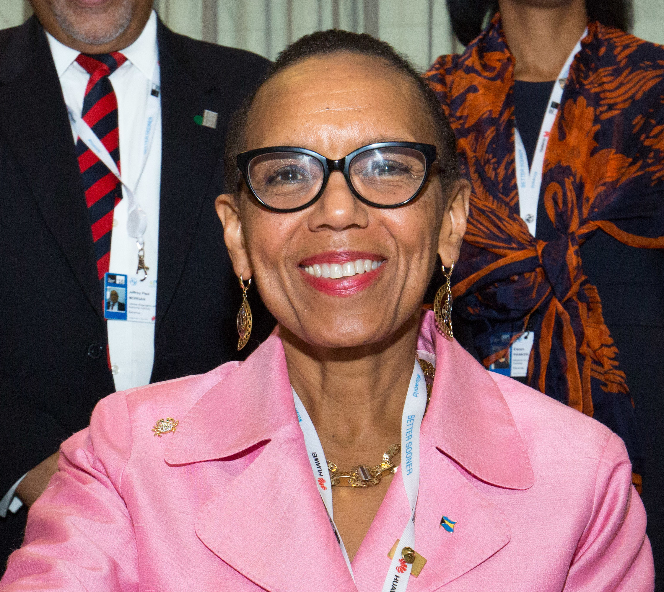 Allyson Maynard Gibson, Attorney General and Minister of Legal Affairs of the Bahamas at the ITU Telecom World 2016 in Bangkok.